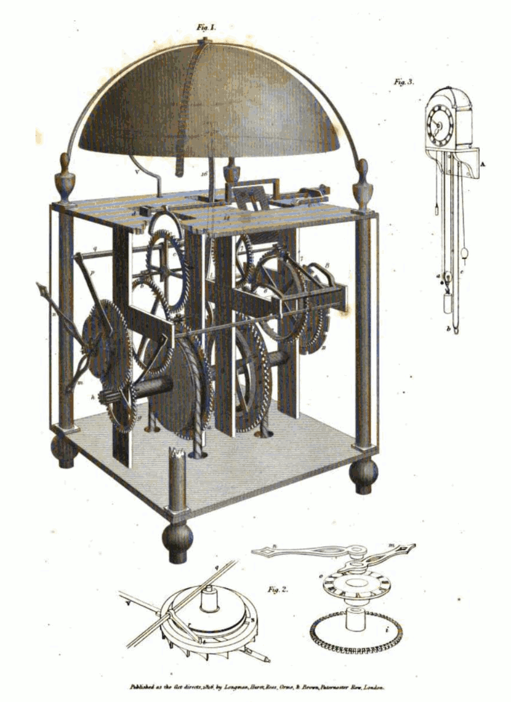 Drawing of the movement of a bracket clock from an 1820 encyclopedia. A bracket clock was an early pendulum clock mounted on a bracket on the wall. The pendulum is not shown on the movement but hung from the back of the clock. The clock struck the hours on its bell using an early striking mechanism called a count wheel (B), visible toward the back of the clock. The anchor escapement (C) is also visible